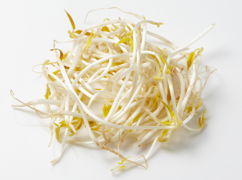 mung bean sprouts